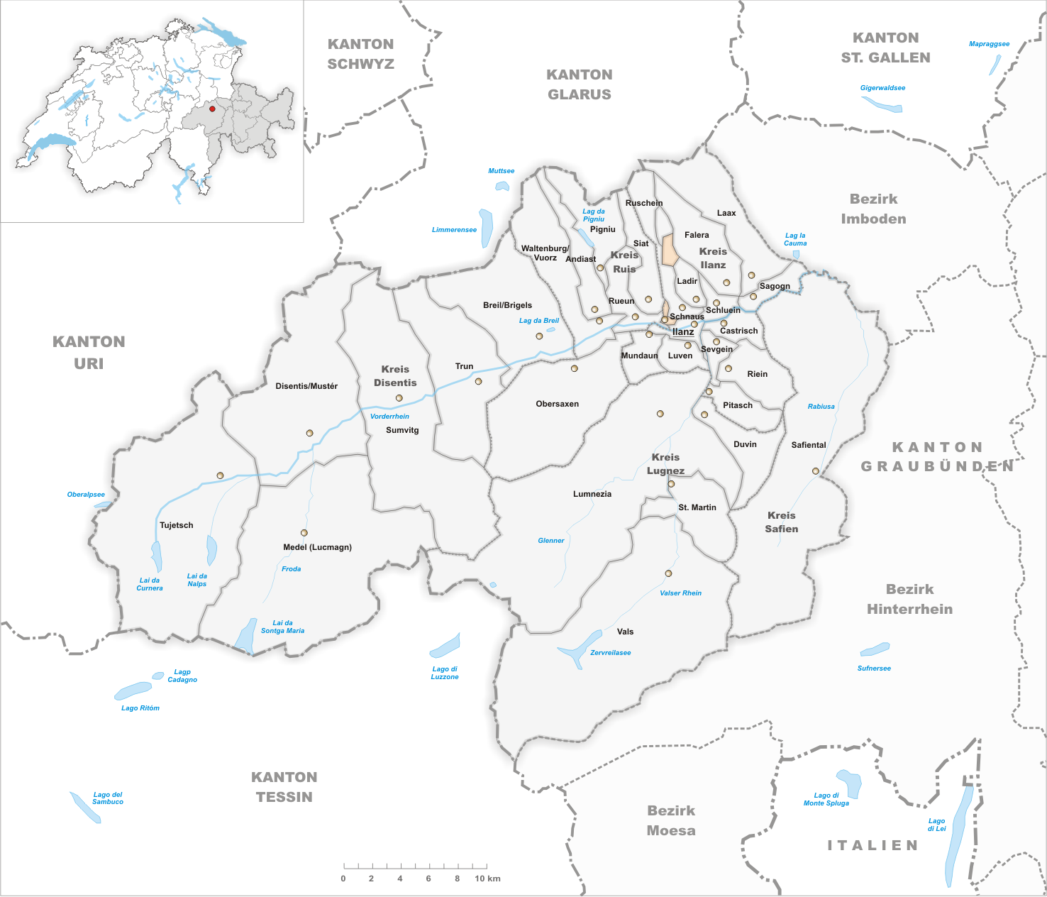 Municipality Schnaus